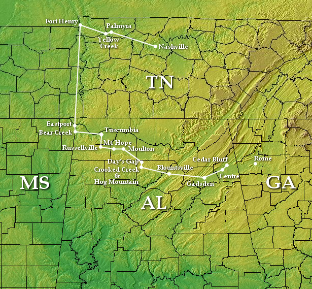 Route of Streight's Raid through Northern Alabama, which started at Nashville and was eventually headed for Rome, GA. Streight's Raid included the Battle of Day's Gap. Straight-lines simply connect the places in chronological order and should not be considered anywhere near accurate route paths. Chronology of events of Streight's Raid in 1863 Nashville, Tennessee (April 7-10) -- proceeded by river Palmyra, Tennessee (April 11-13) -- proceeded on foot Yellow Creek, Tennessee (April 13-14) -- proceeded on foot Fort Henry, Tennessee (April 15-17) -- proceeded by river Eastport, Mississippi (April 19-21) -- proceeded either by foot or river Bear Creek/River, Mississippi (April 22) -- proceeded on foot the rest of the way Tuscumbia, Alabama (April 24-26) Mount Hope, Alabama (April 27-28) Moulton, Alabama (April 28) Day's Gap, Alabama (April 29-30) Battle of Day's Gap (April 30) Skirmish at Crooked Creek (April 30) Skirmish at Hog Mountain (April 30) Arrival at Blountsville (May 1) Skirmishes at Blountsville (May 1) Skirmishes at the East Branch of the Black Warrior River (May 1) Skirmishes at the crossing of Black Creek, near Gadsden (May 2) Damaged ammunition while crossing Will's Creek, near Gadsden (May 2) Gadsden, Alabama (May 2) Blount's plantation, about 15 miles from Gadsden (May 2) Skirmishes at/near Blount's plantation (May 2-3) Centre, Alabama (May 3) Cedar Bluff, Alabama (May 3) Surrender to Confederate Gen. Nathan Bedford Forrest outside Cedar Bluff, Alabama (May 3) Taken to Richmond, Virginia as prisoners of war